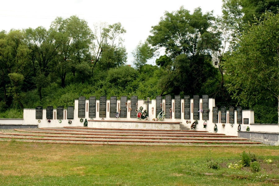 Svaliava Memorial Park, Svaliava, Ukraine